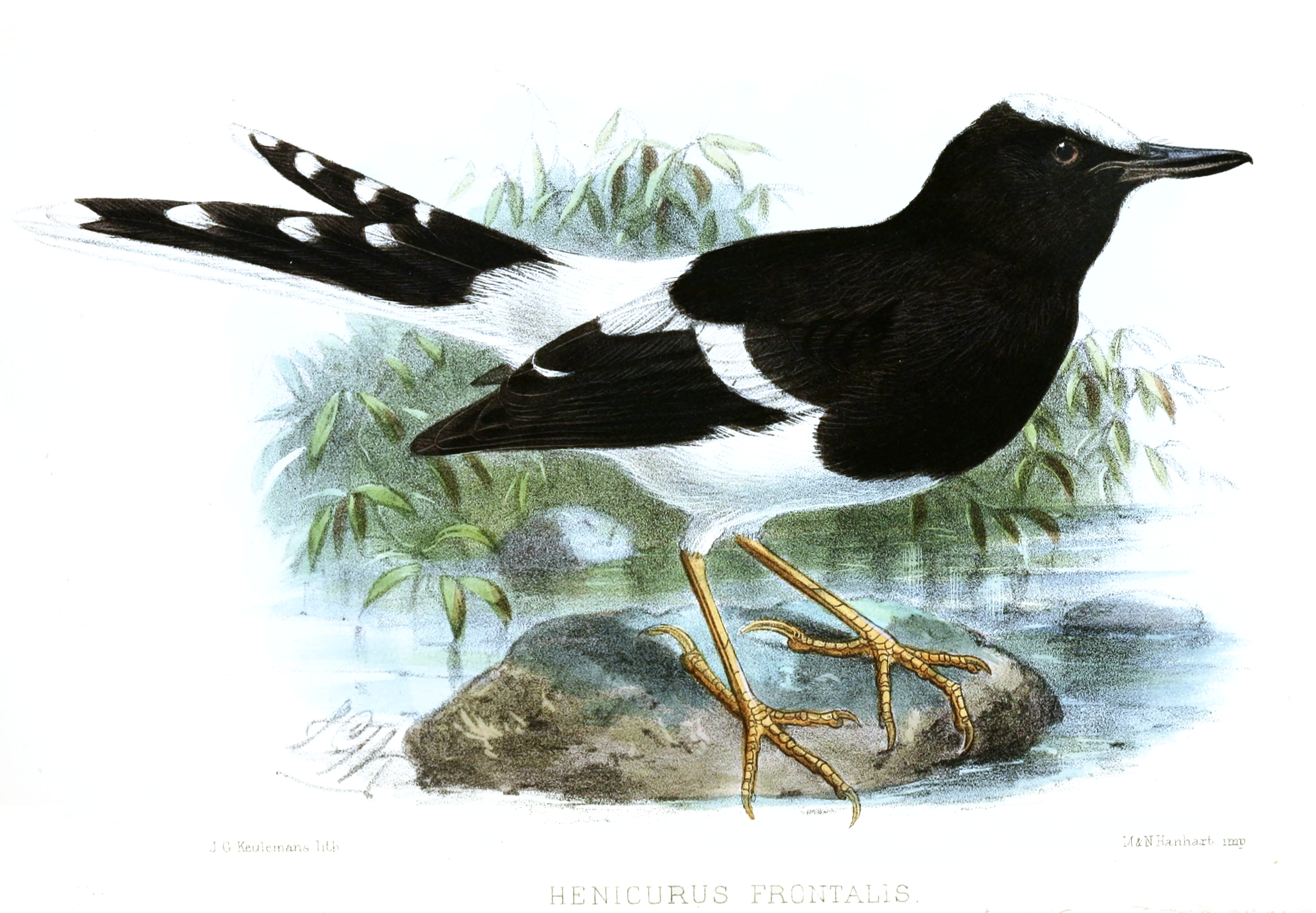 « Henicurus frontalis » = Enicurus leschenaulti (White-crowned Forktail)